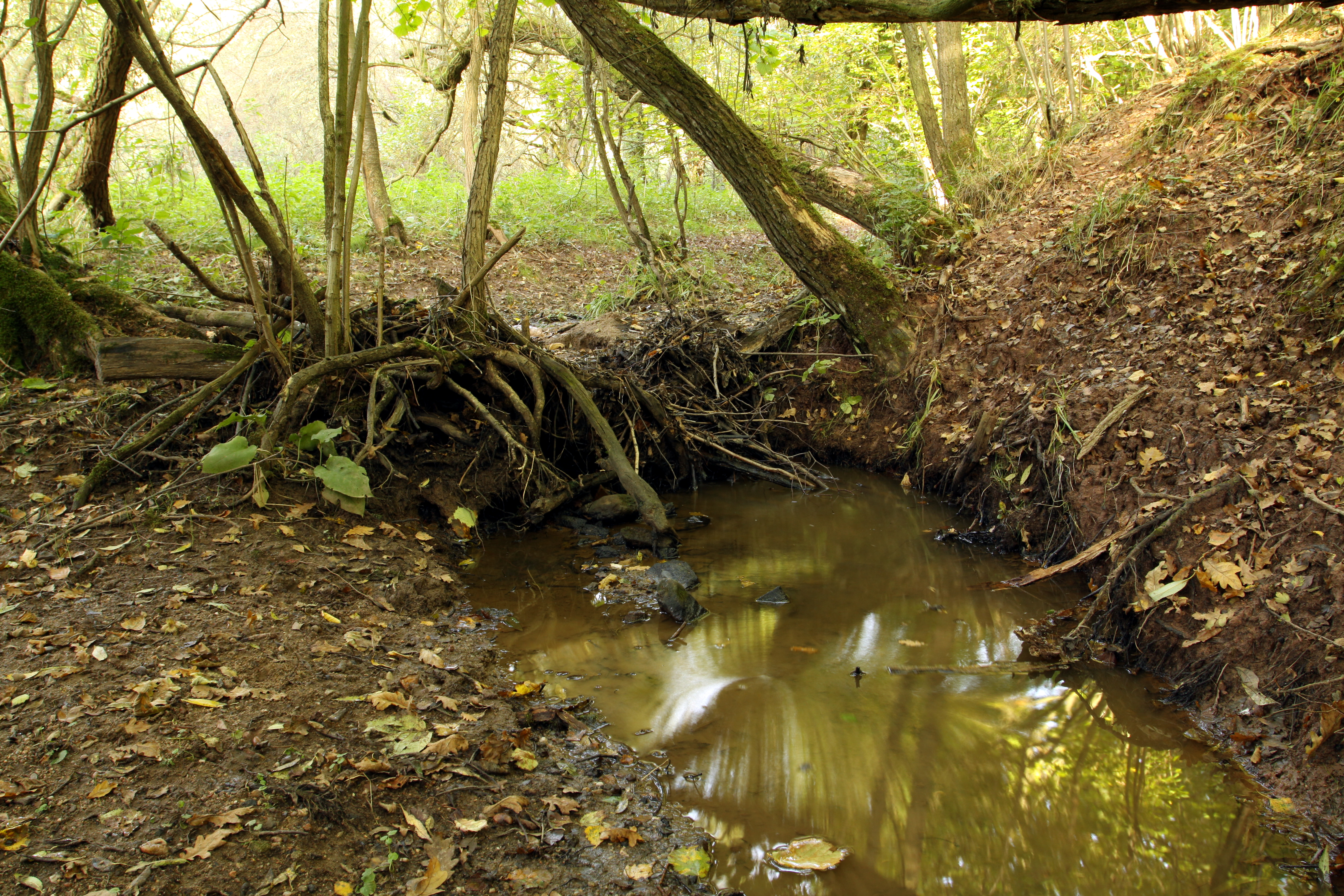 Nature reserve Luční potok near Jesenice village in Rakovník District, Czech Republic - Google Maps - Google Earth